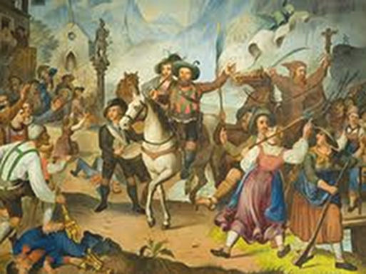 people acclaims Andreas Hofer victorious